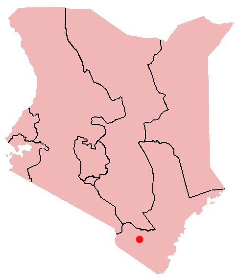 Voi, Kenya Location Map; created with the GIMP. Made by User:Acntx.